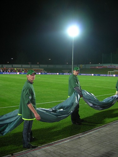 Sports volunteer members at the football match between Lithuania and Austria